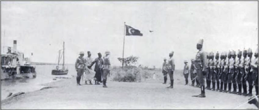 Photograph showing the raising of the Egyptian flag at Fashoda following the arrival of Kitchener's flotilla in 1898.